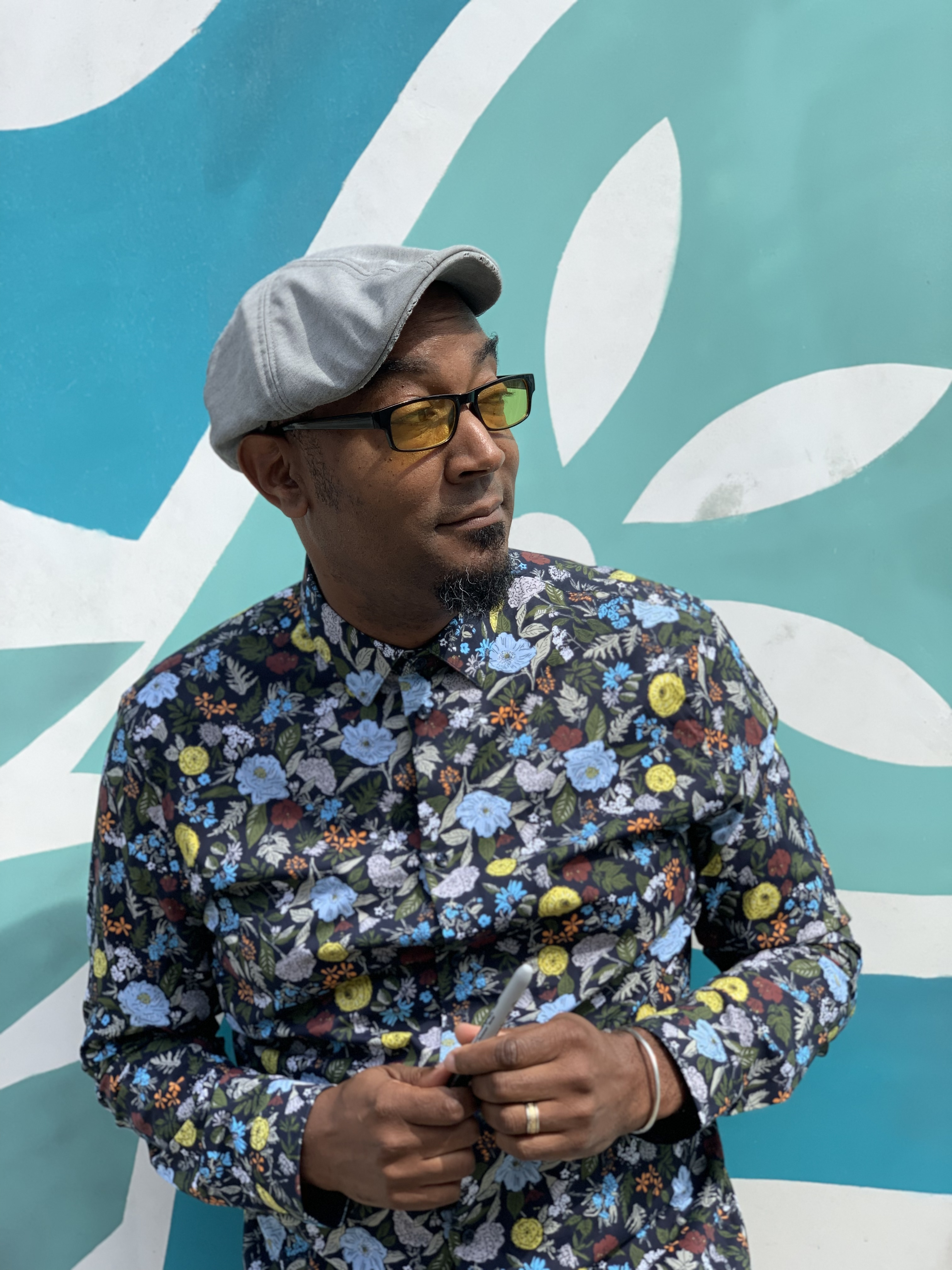 Keith Knight, Gentleman Cartoonist